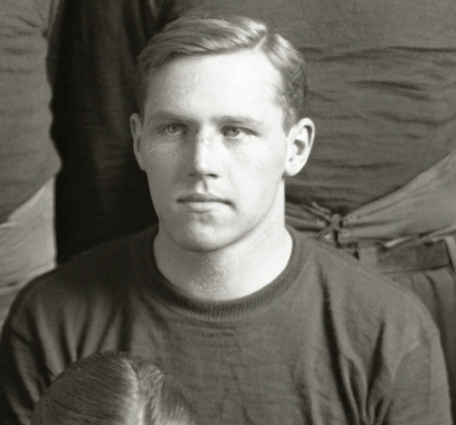 Photograph of Stanley Muirhead